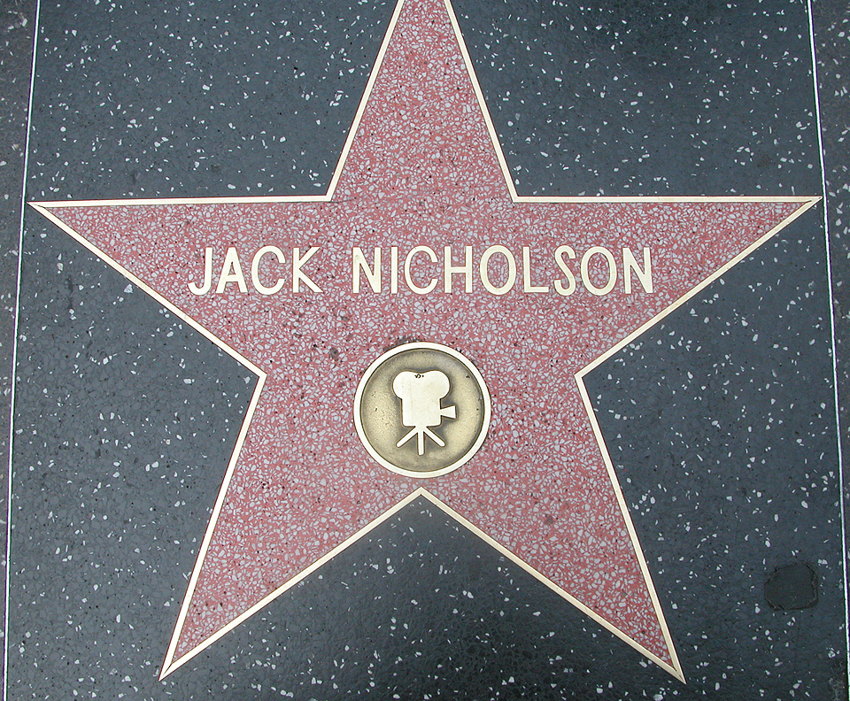 Jack Nicholson's star on the Hollywood Walk of Fame, Los Angeles (California)